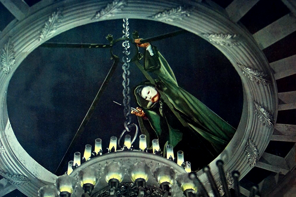 Cropped and edited lobby card for the 1943 remake of The Phantom of the Opera, featuring Claude Rains as the eponymous phantom. Image is assumed to be in the public domain as no copyright notice is in evidence.